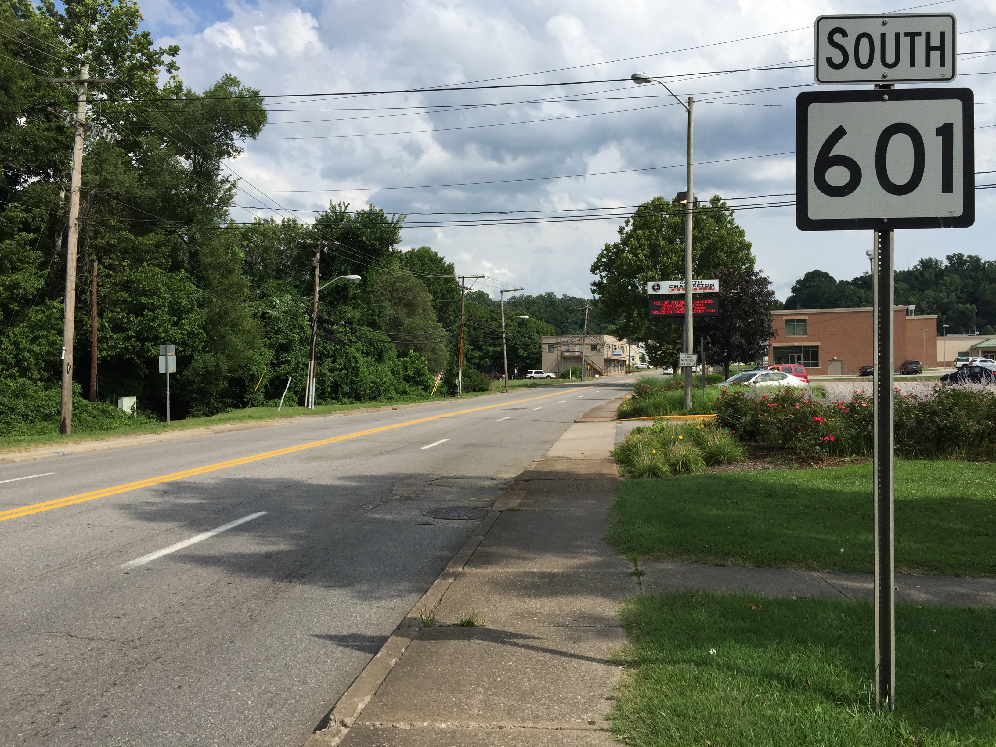 View south along West Virginia State Route 601 (Jefferson Road) at U.S. Route 60 (MacCorkle Avenue) in South Charleston, Kanawha County, West Virginia